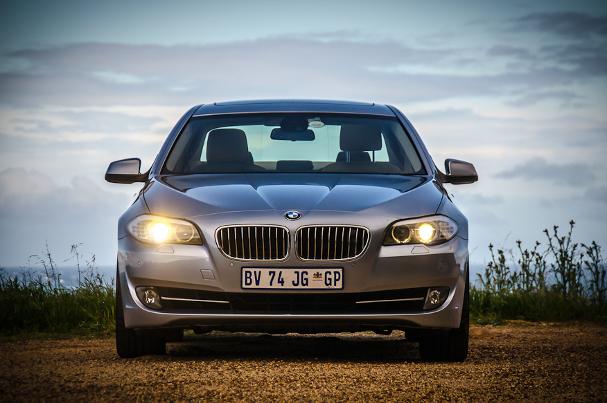 More Pics and a Review of the Active Hybrid 5